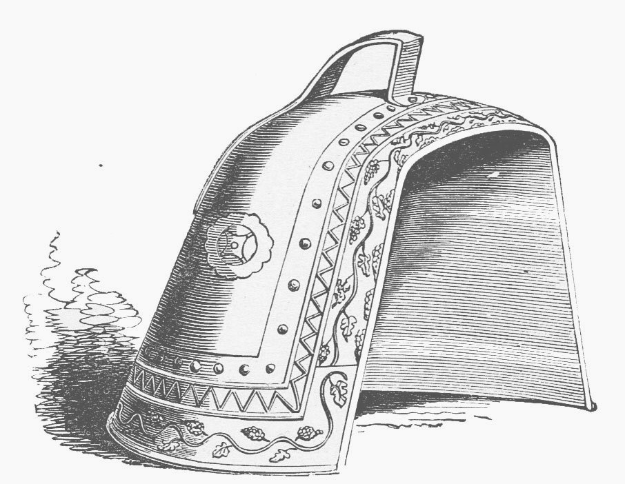 Couvre-feu utensil for extinguishing the fire in a fireplace